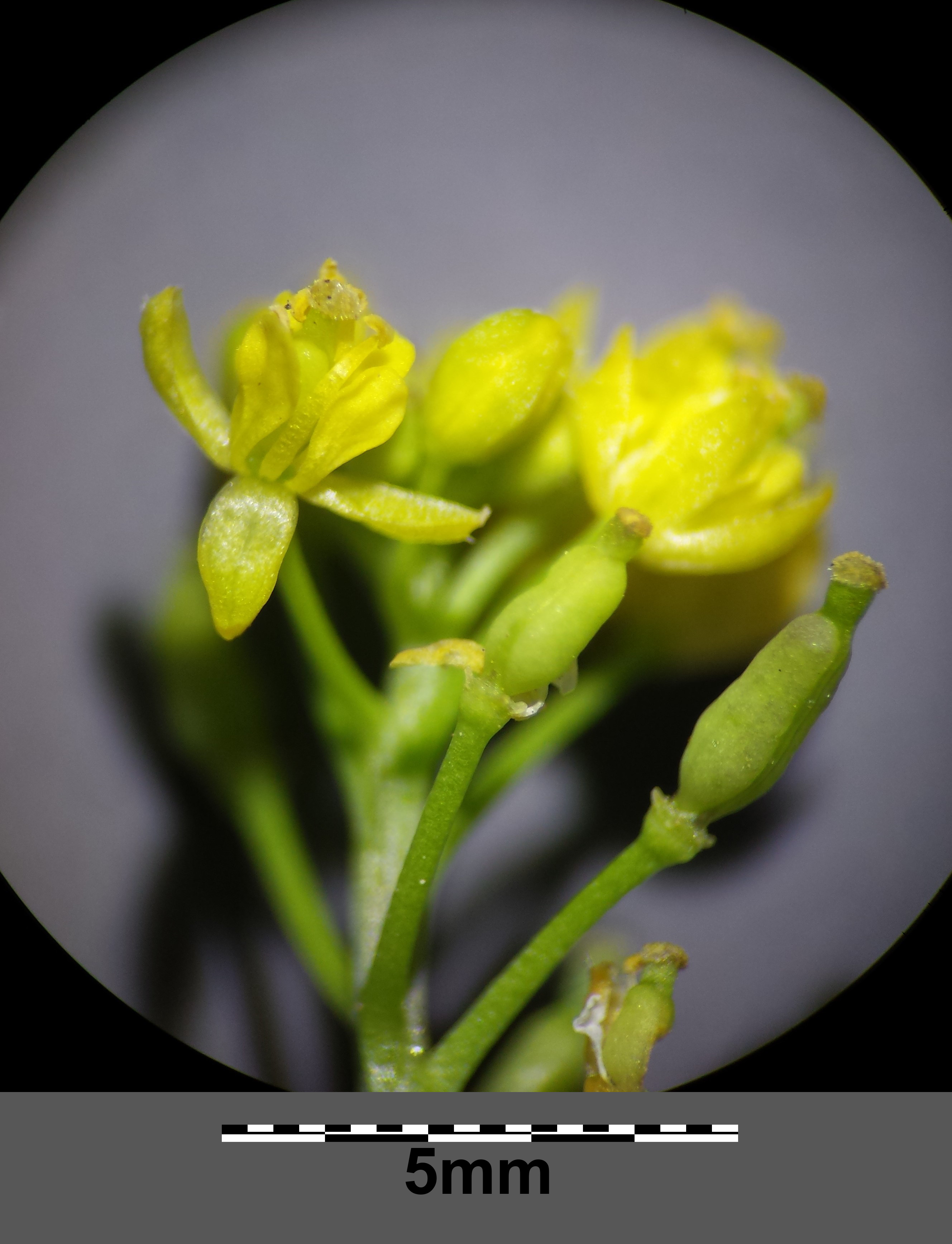 Inflorescence Taxonym: Rorippa palustris ss Fischer et al. EfÖLS 2008 ISBN 978-3-85474-187-9 Location: Žárský rybník, Jihočeský kraj, Czech Republic - ca. 500 m a.s.l. Habitat: shore of a pond